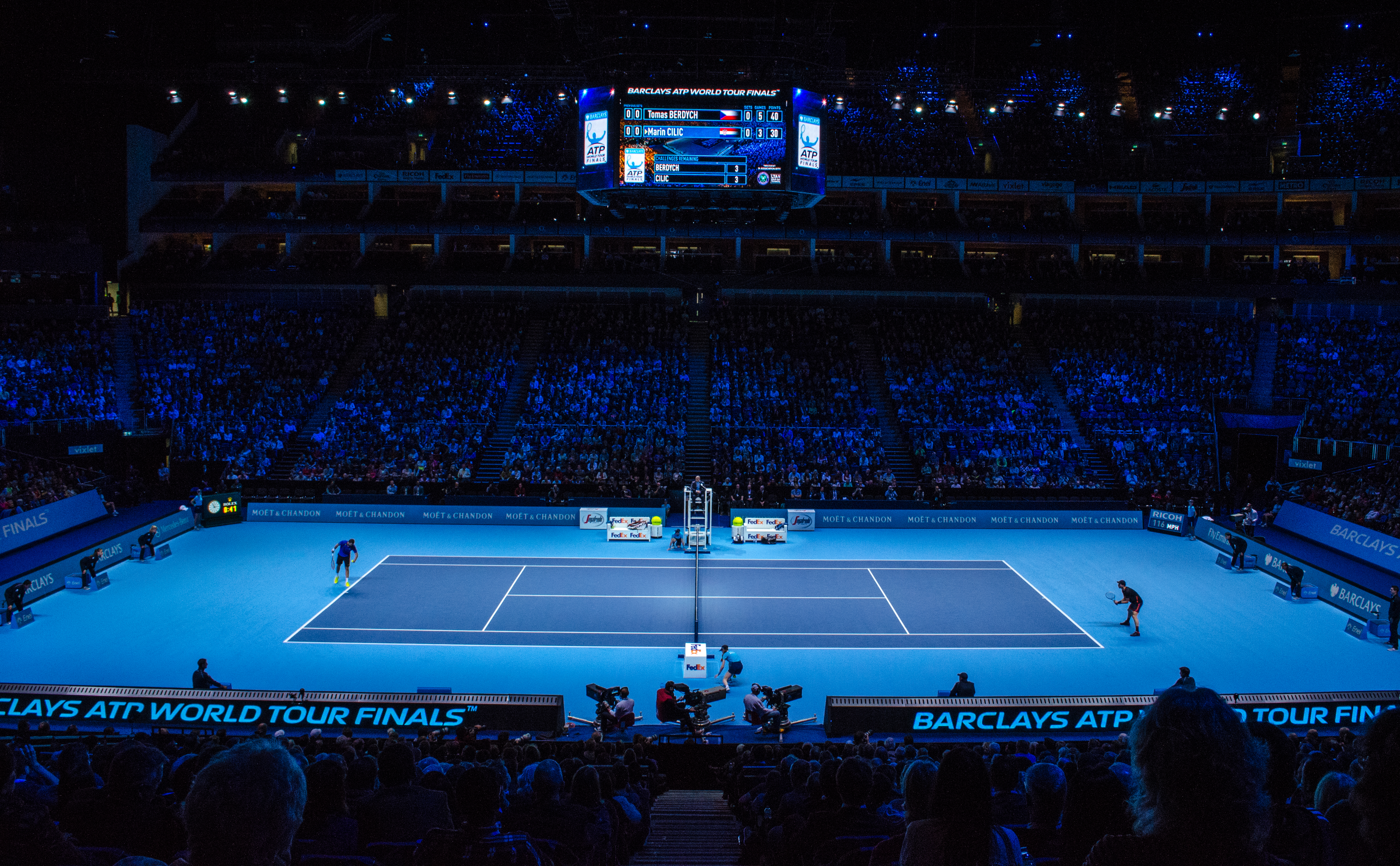 This is a photo of a tennis game at the ATP World Tour Finals.